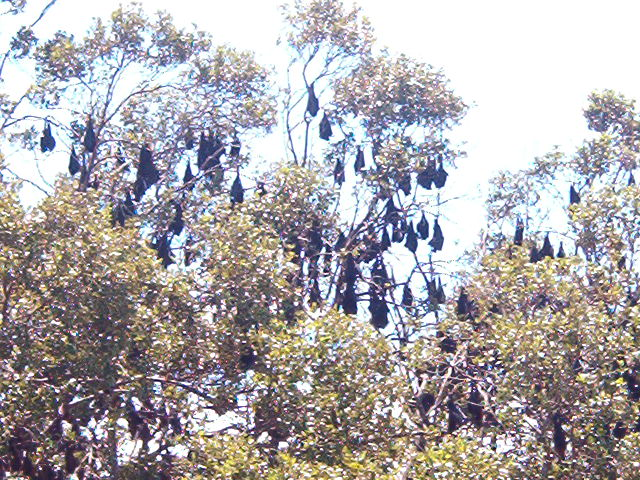 A colony of flying foxes in Australia.